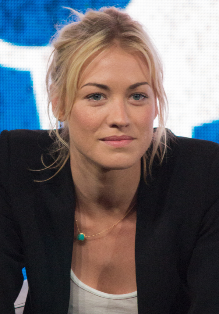 Yvonne Strahovski at the Nerd HQ 2014's Mystery Badass Women panel